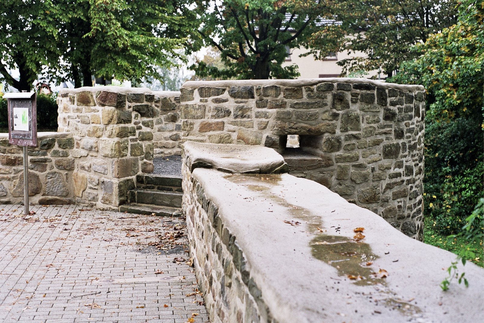 Altendorf Castle in Essen-Burgaltendorf, south-western round tower